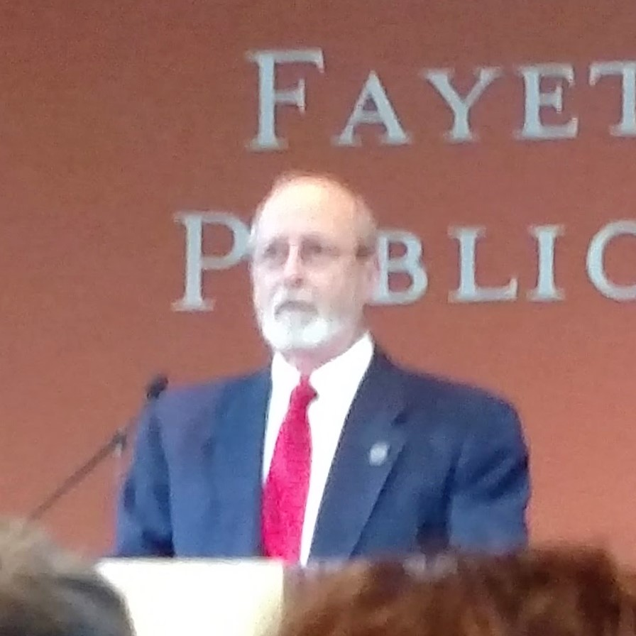 Fayetteville Mayor Lioneld Jordan addresses a crowd at the Fayetteville Public Library in Fayetteville, Arkansas